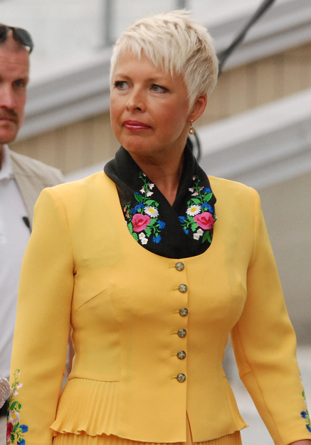 Evelin Ilves. Cropped version of Flickr image.